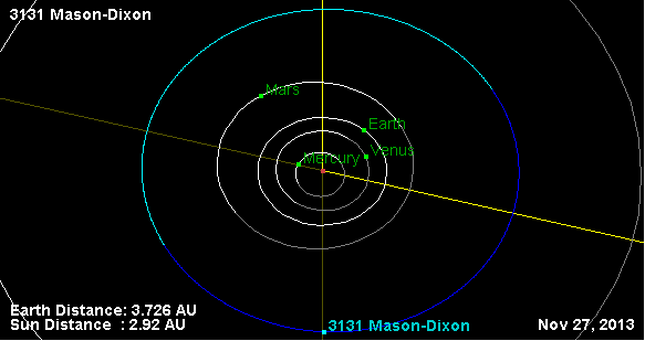 This diagram illustrates the orbit of the Main-belt asteroid 3131 Mason-Dixon.